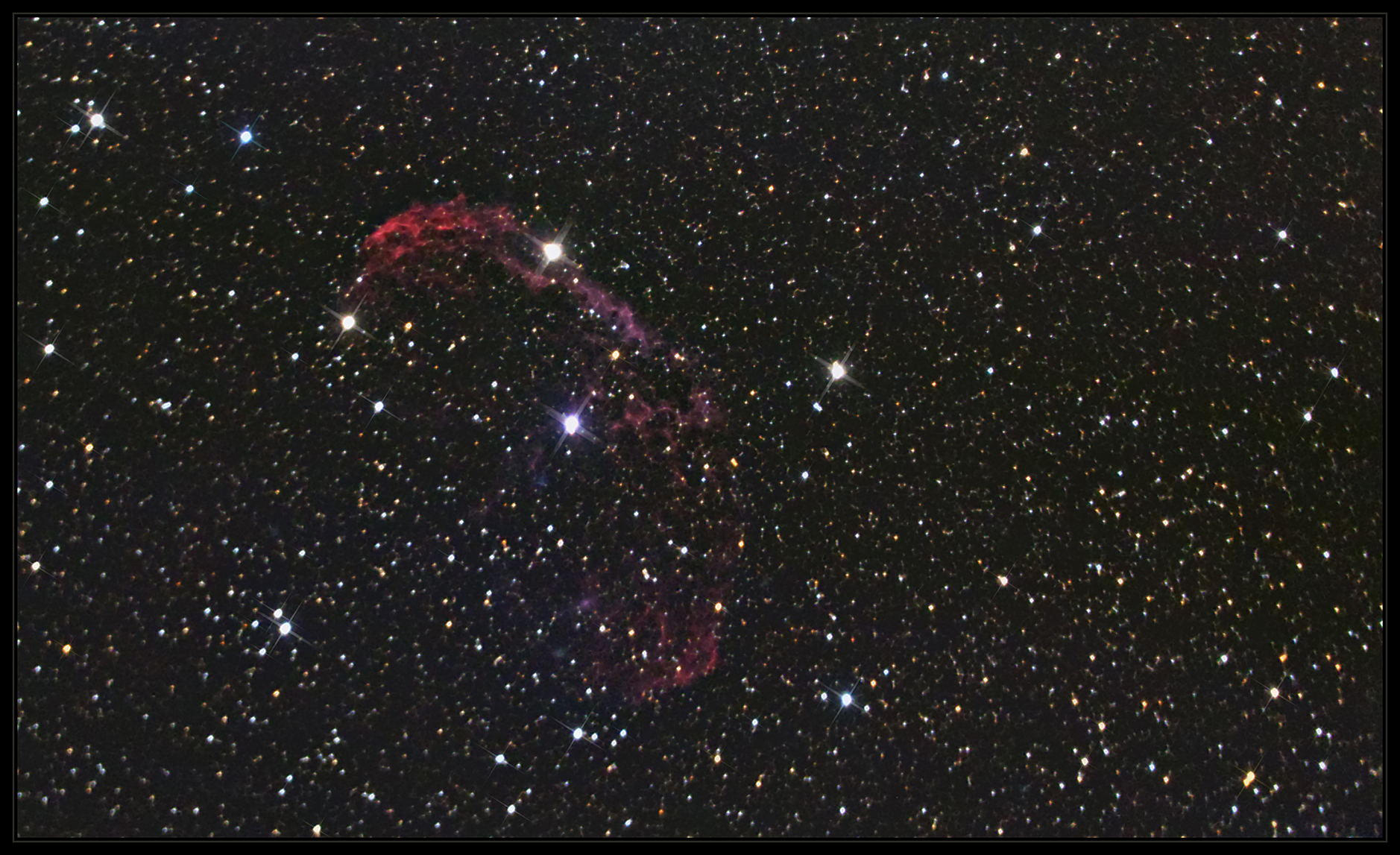 Amateur photography of the Crescent-Nebula. 8-inch (20cm) SC-Telescope, digital SLR-Camera